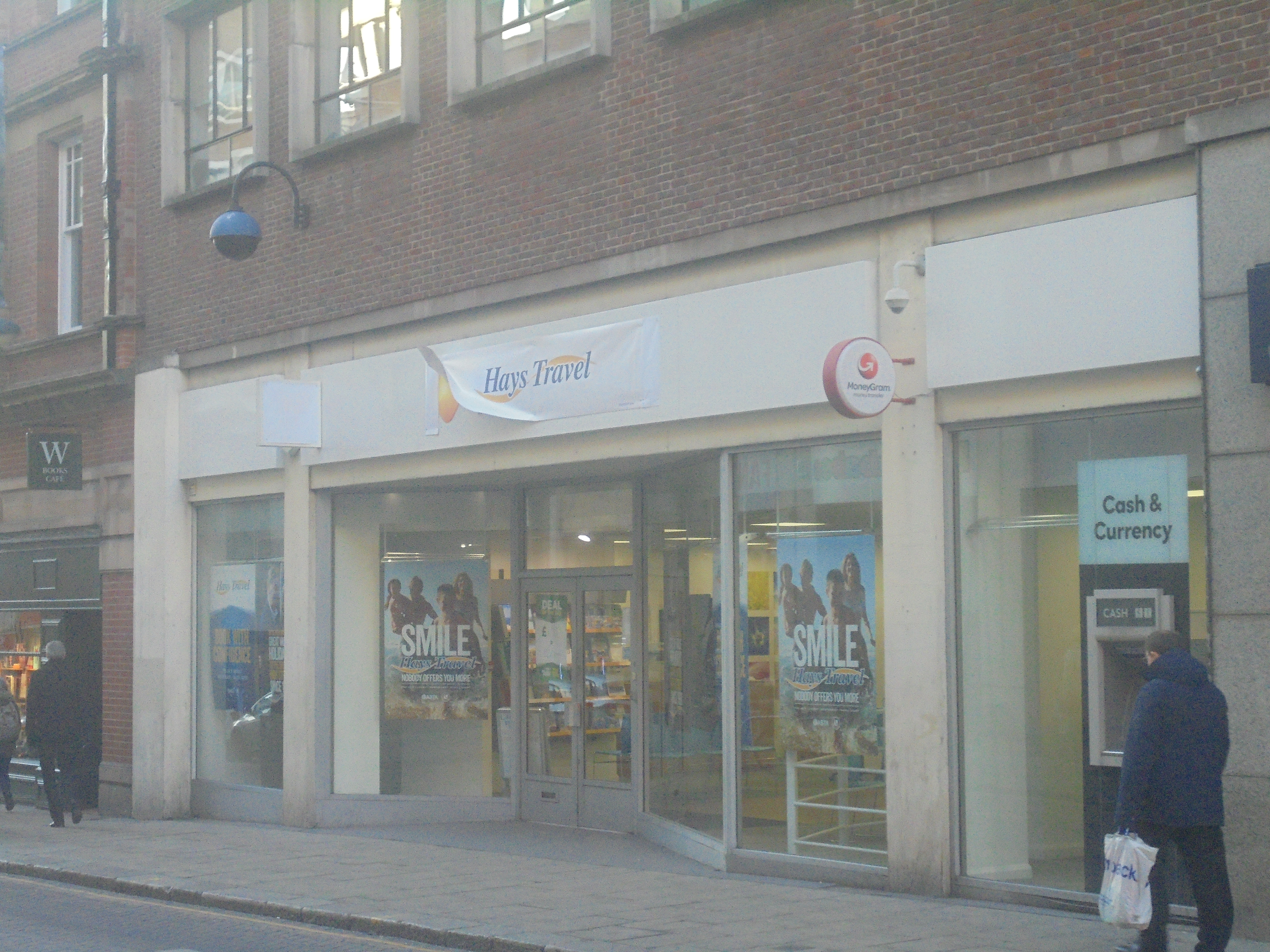 Hays Travel in the former Thomas Cook, Albion Street, Leeds, West Yorkshire. Taken on the afternoon of Tuesday the 3rd of December 2019.